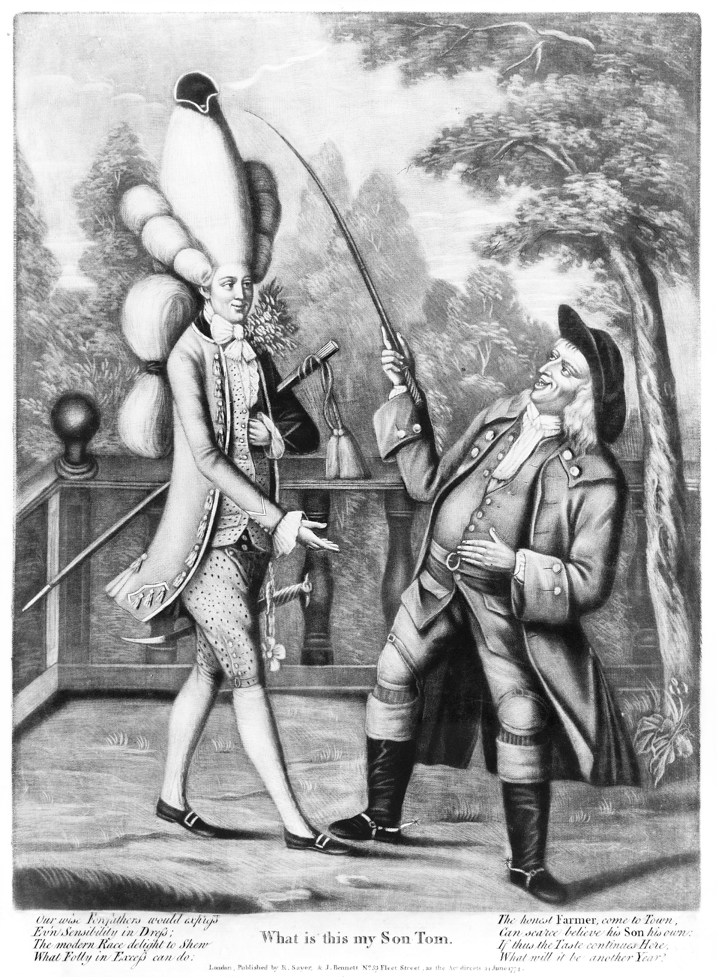 "What! Is this my son Tom?", a June 24th 1774 caricature on extreme "Macaroni" fashions of the 1770s (with a "big hair" hairstyle which echos women's aristocratic styles of the time). Poem in caricature: Our wise Forefathers would express Ev'n Sensibility in Dress ; The modern Race delight to Shew What Folly in Excess can do. The honest Farmer come to town, [i.e. to London] Can scarce believe his Son his own. If thus the Taste continues Here, What will it be another Year? Bibliographic information on LoC site: TITLE: What is this my son Tom CALL NUMBER: PC 3 - 1774 - What is this my son Tom (A size) [P&P] REPRODUCTION NUMBER: LC-USZ62-115003 (b&w film copy neg.) No known restrictions on publication. SUMMARY: "Honest farmer" with adult son who has large, elaborate hairstyle and stylish clothes. MEDIUM: 1 print : mezzotint. CREATED/PUBLISHED: London : published by R. Sayer & J. Bennett, 1774. NOTES: British Cartoon Collection. Exhibited: Hair, The Tang Teaching Museum and Art Gallery at Skidmore College, Saratoga Springs, New York, 2003-04. SUBJECTS: Men--Clothing & dress--England--1770-1780. Hairstyles--England--1770-1780. FORMAT: Satires British 1770-1780. Mezzotints British 1770-1780. DIGITAL ID: (b&w film copy neg.) cph 3c15003 CARD #: 95513751